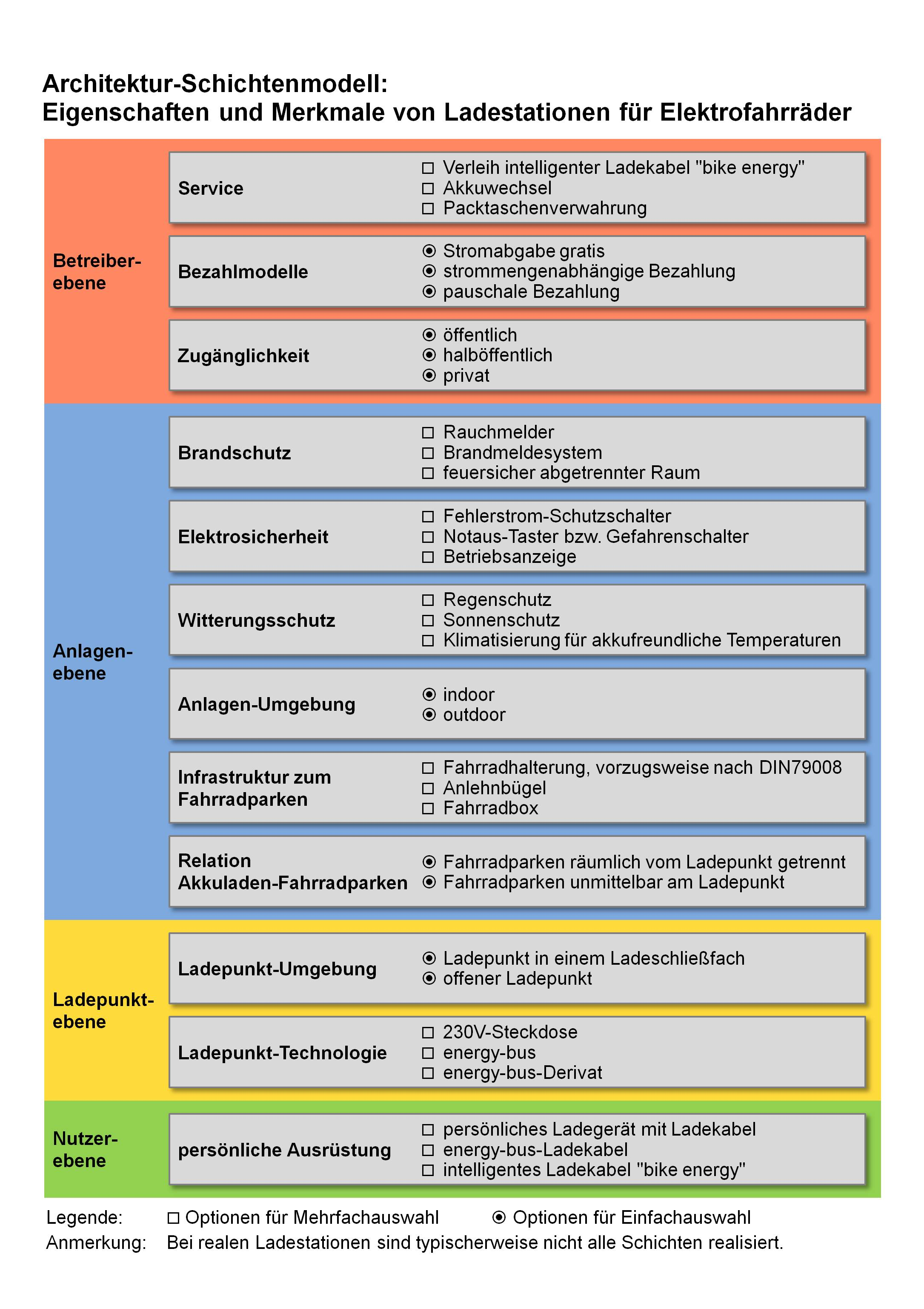 framework for e-bike charging infrastructure